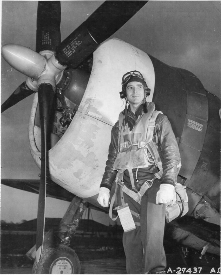 Major Walter C Beckham of the 351st Fighter Squadron, 353rd Fighter Group with his P-47D "Little Demon II" (42-75226), shortly after his 18th - and final - aerial victory. A week later, he would be knocked down by flak on 22 February 1944 over Ostheim, and would remain a guest of the Luftwaffe for the duration of the war in Europe.